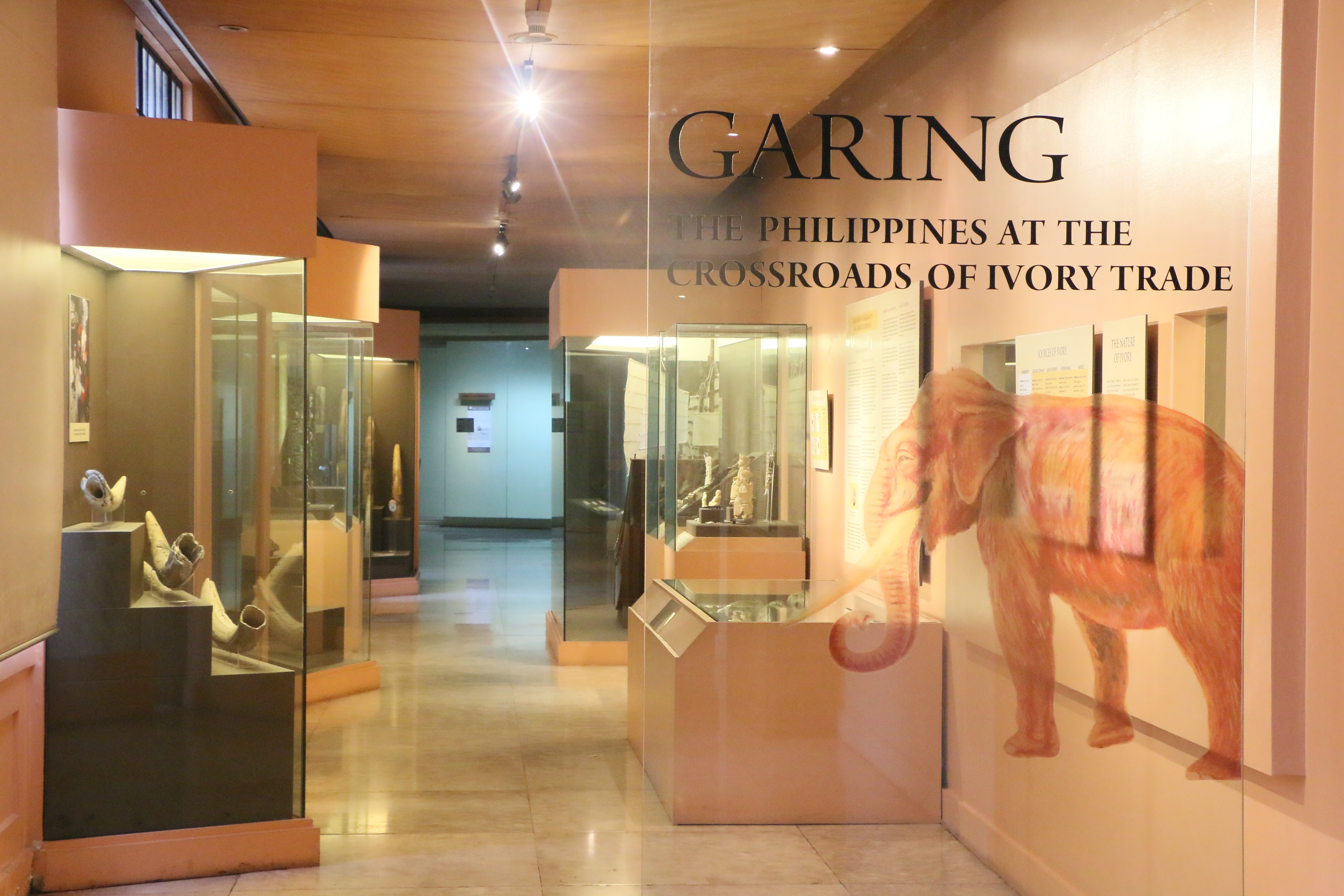 Gallery